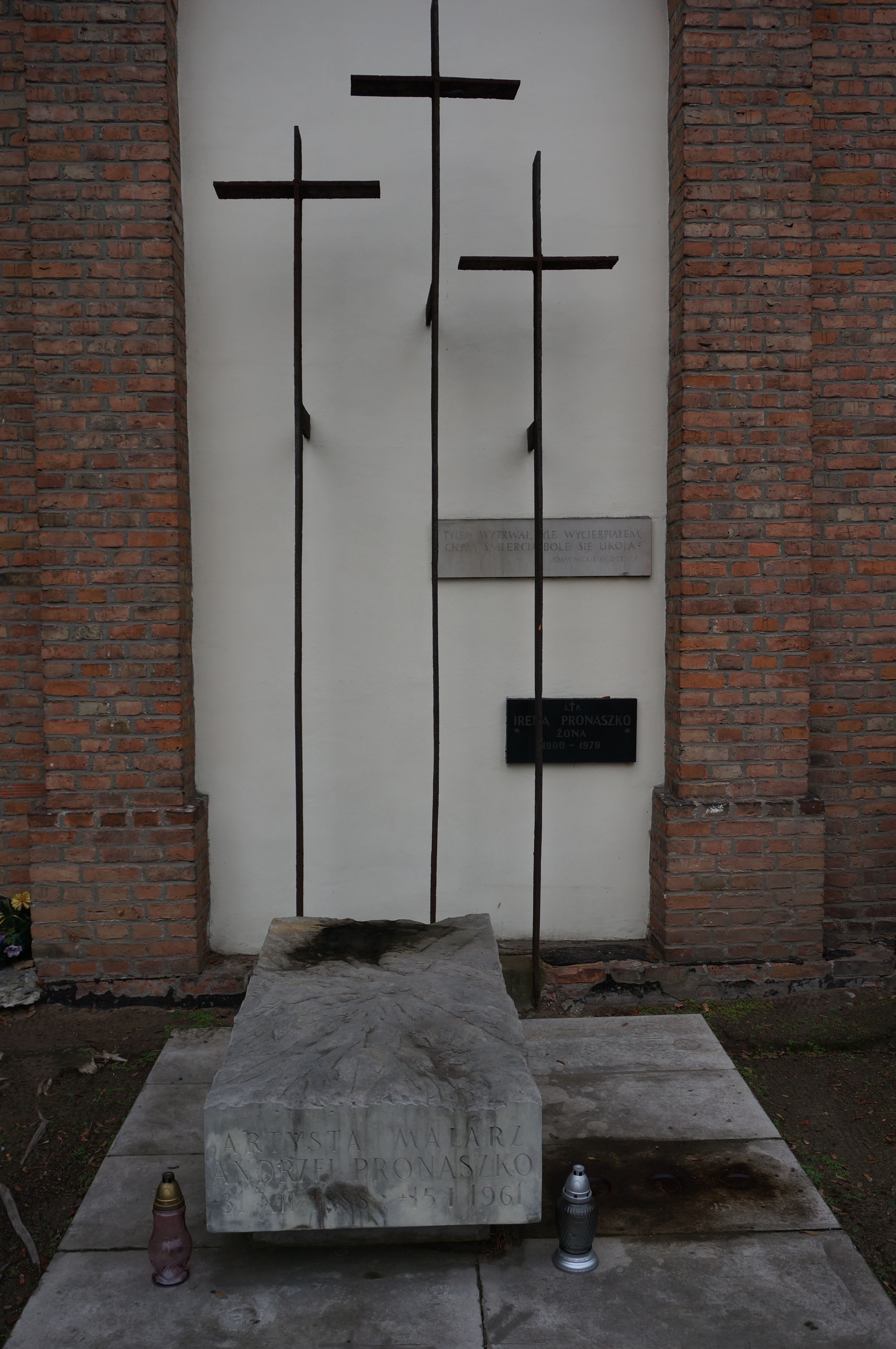 The grave of Andrzej Pronaszka at the Powązki Cemetery (Avenue of Deserved, grave 110)